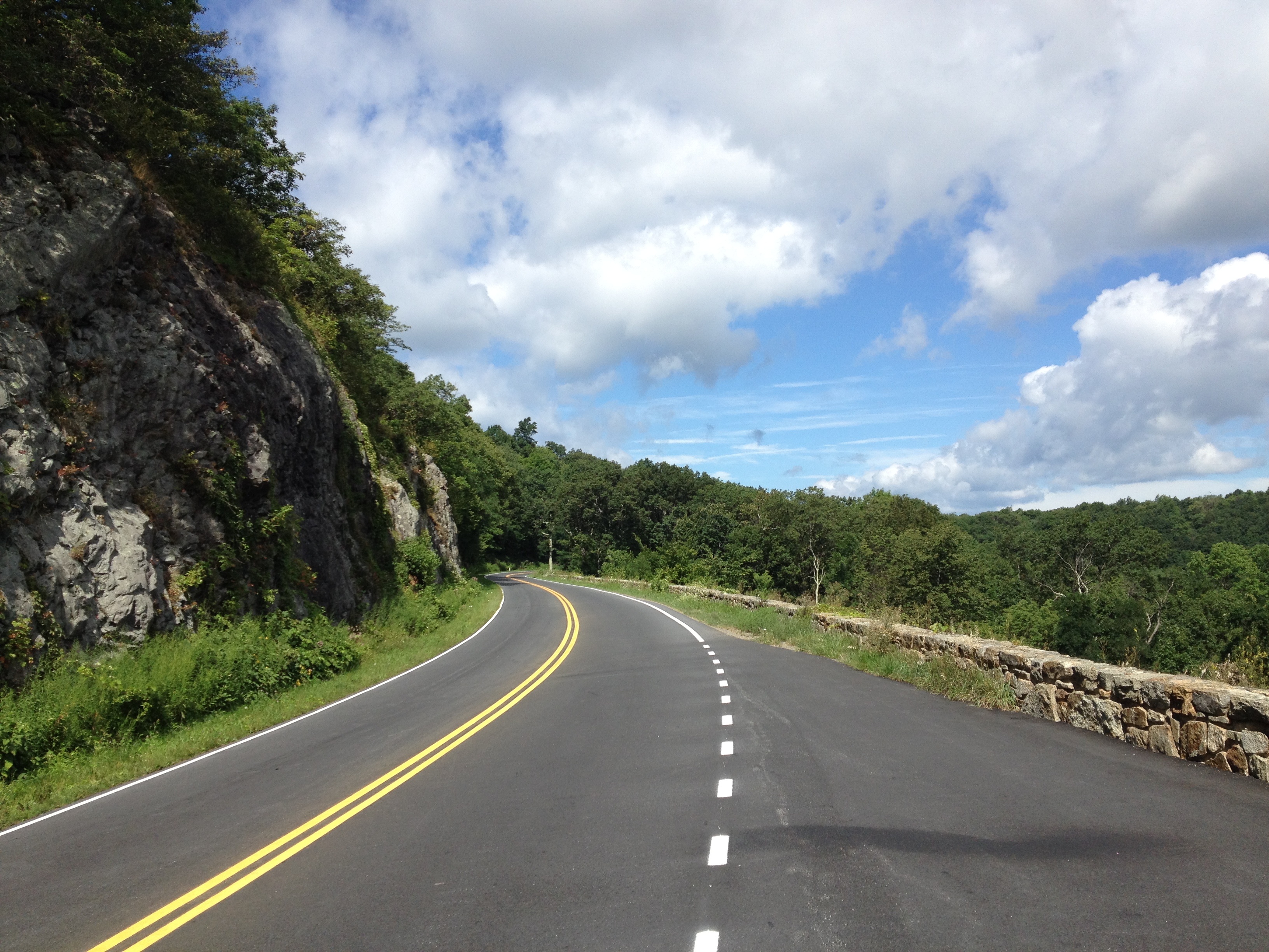 Skyline Drive in Shenandoah National Park in Virginia at the Indian Run Overlook between Front Royal and Thornton Gap